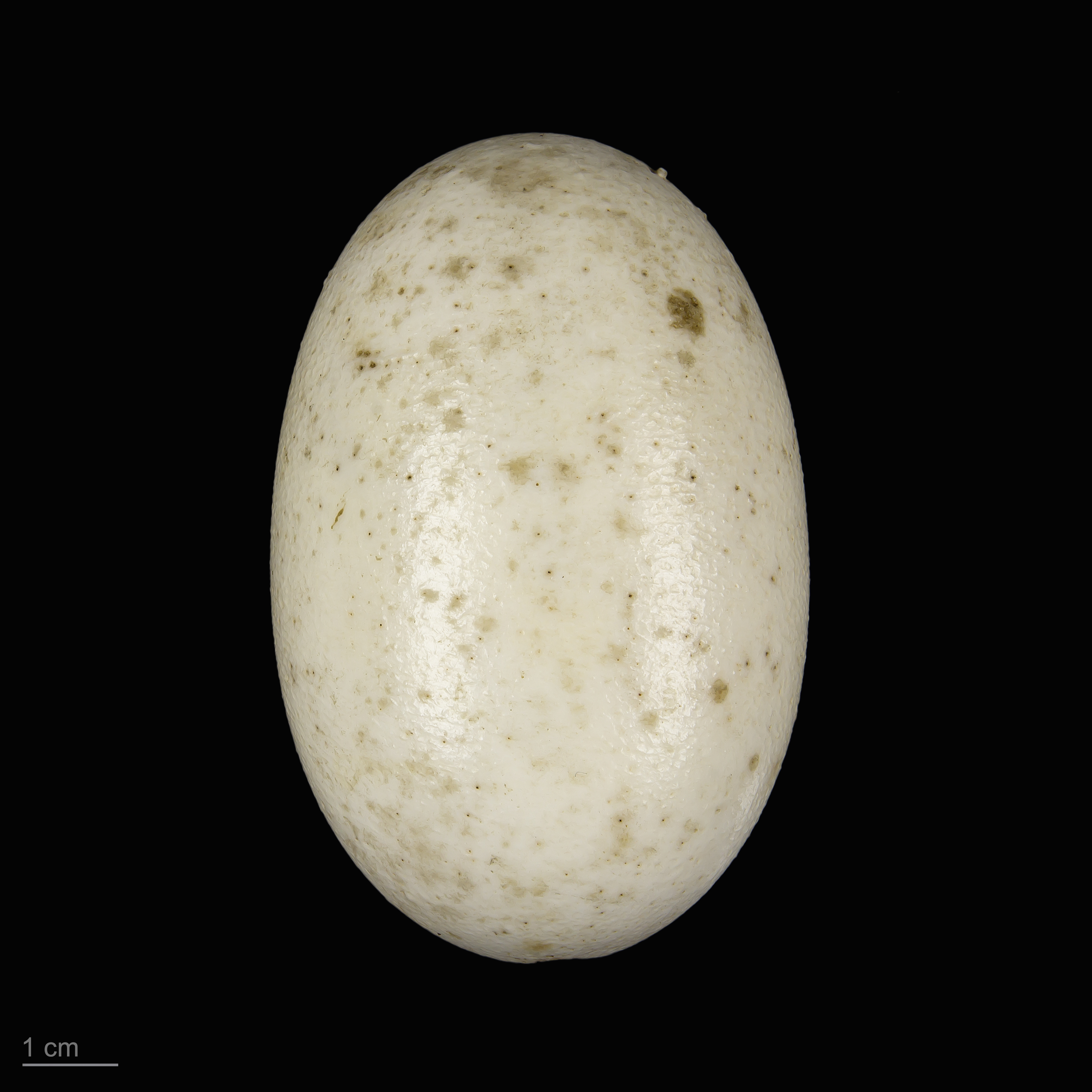 egg, Nile crocodile, size : 7 x 5 x 5 cm